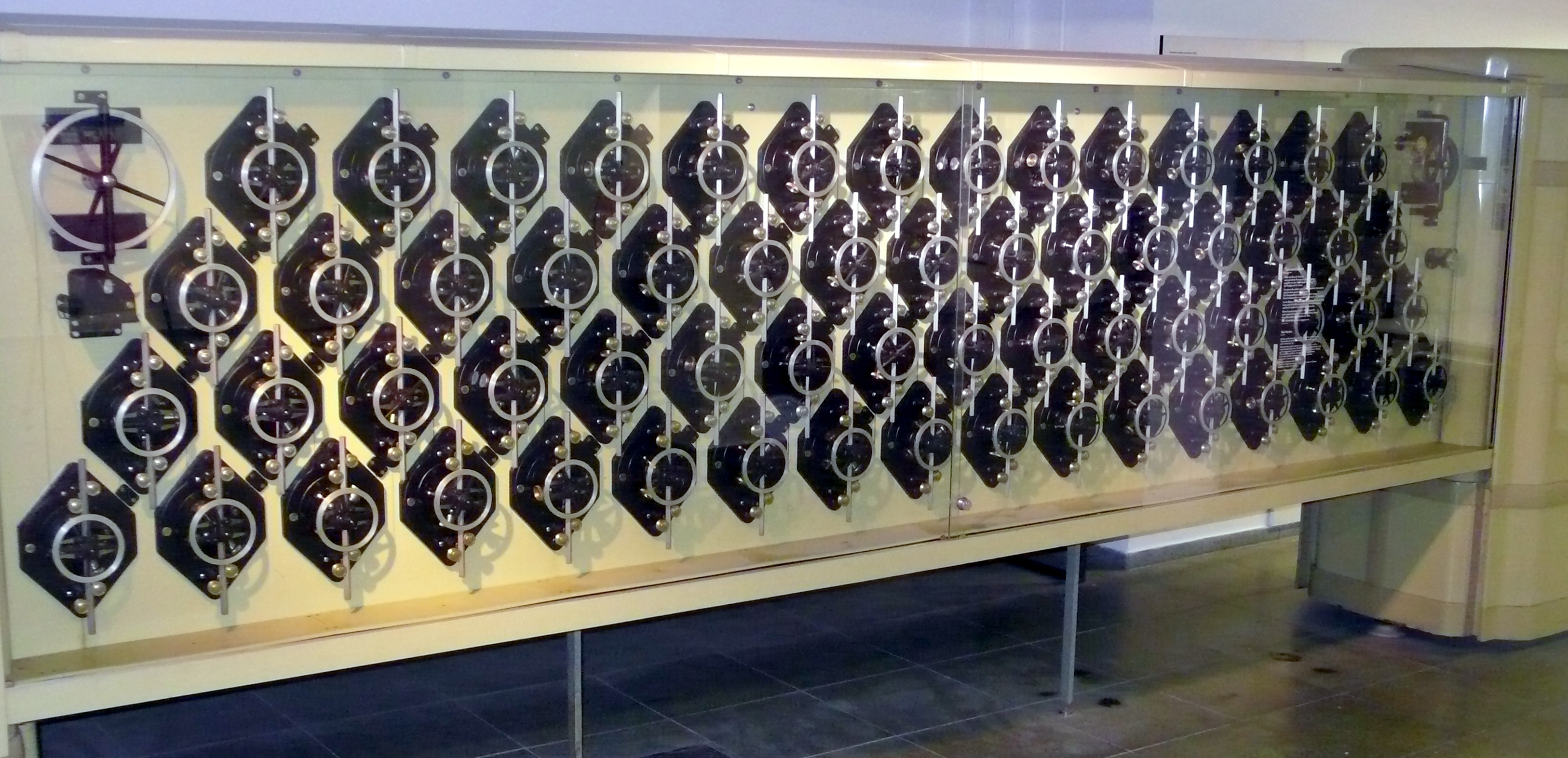 Tide-predicting_machine